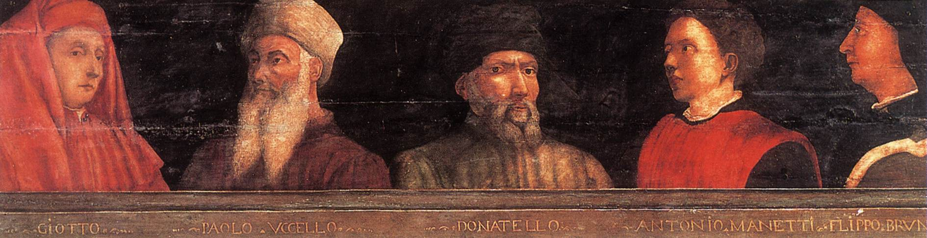 Five Famous Men